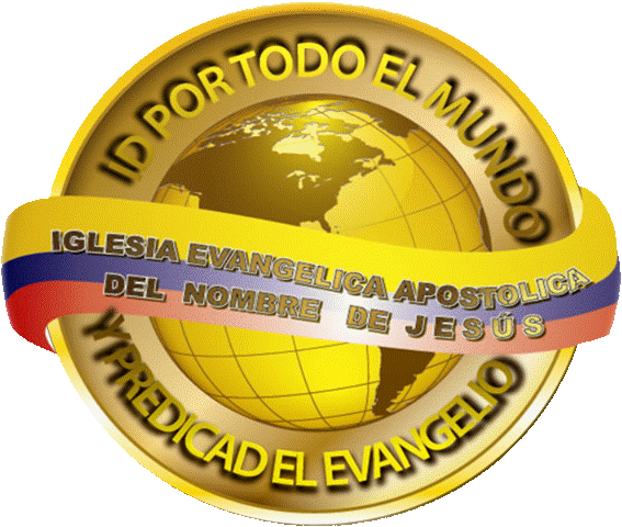 Official Logo of Jesus Name Apostolic Church of Ecuador